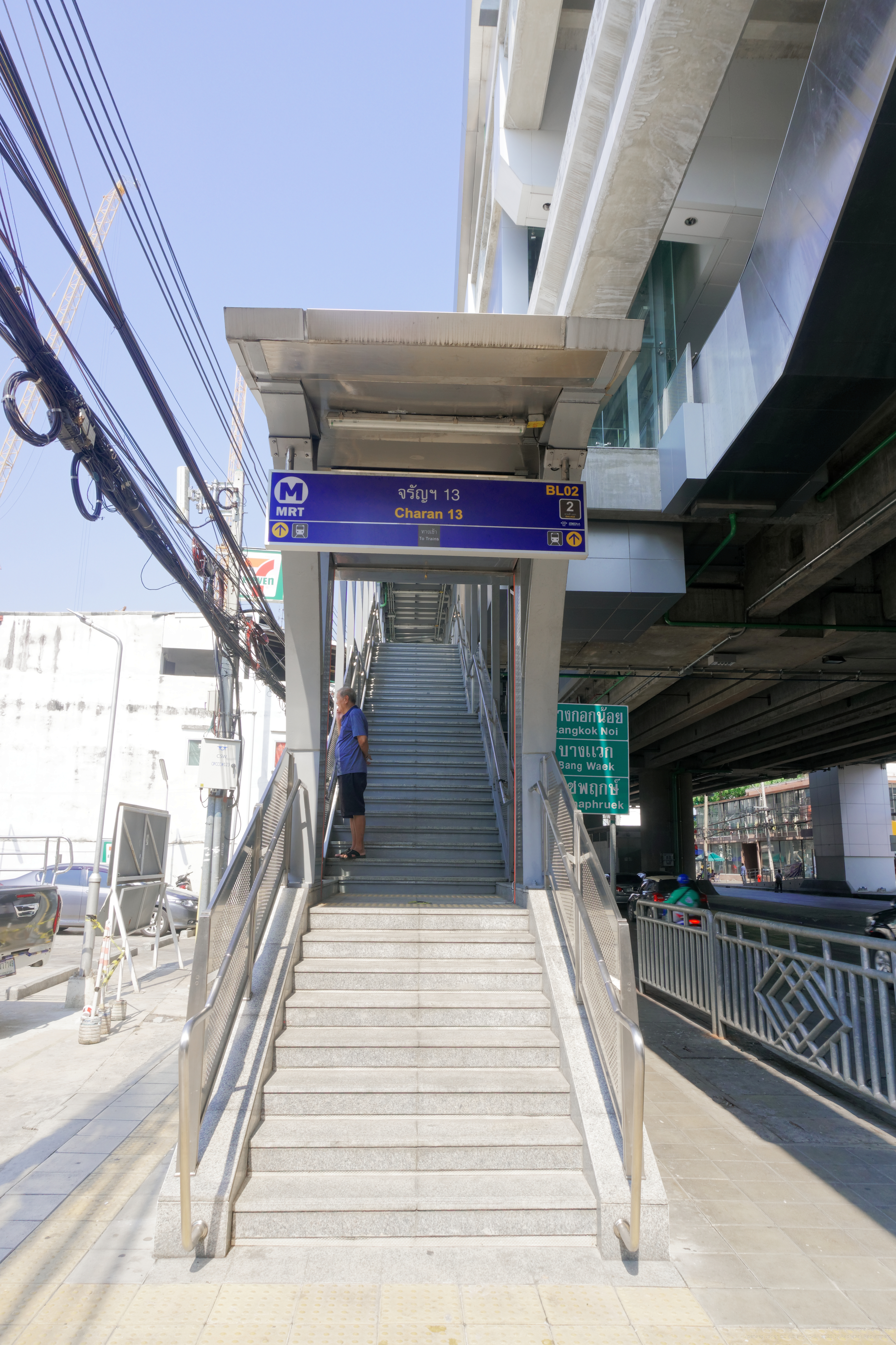 MRT Charan 13 – Exit 2